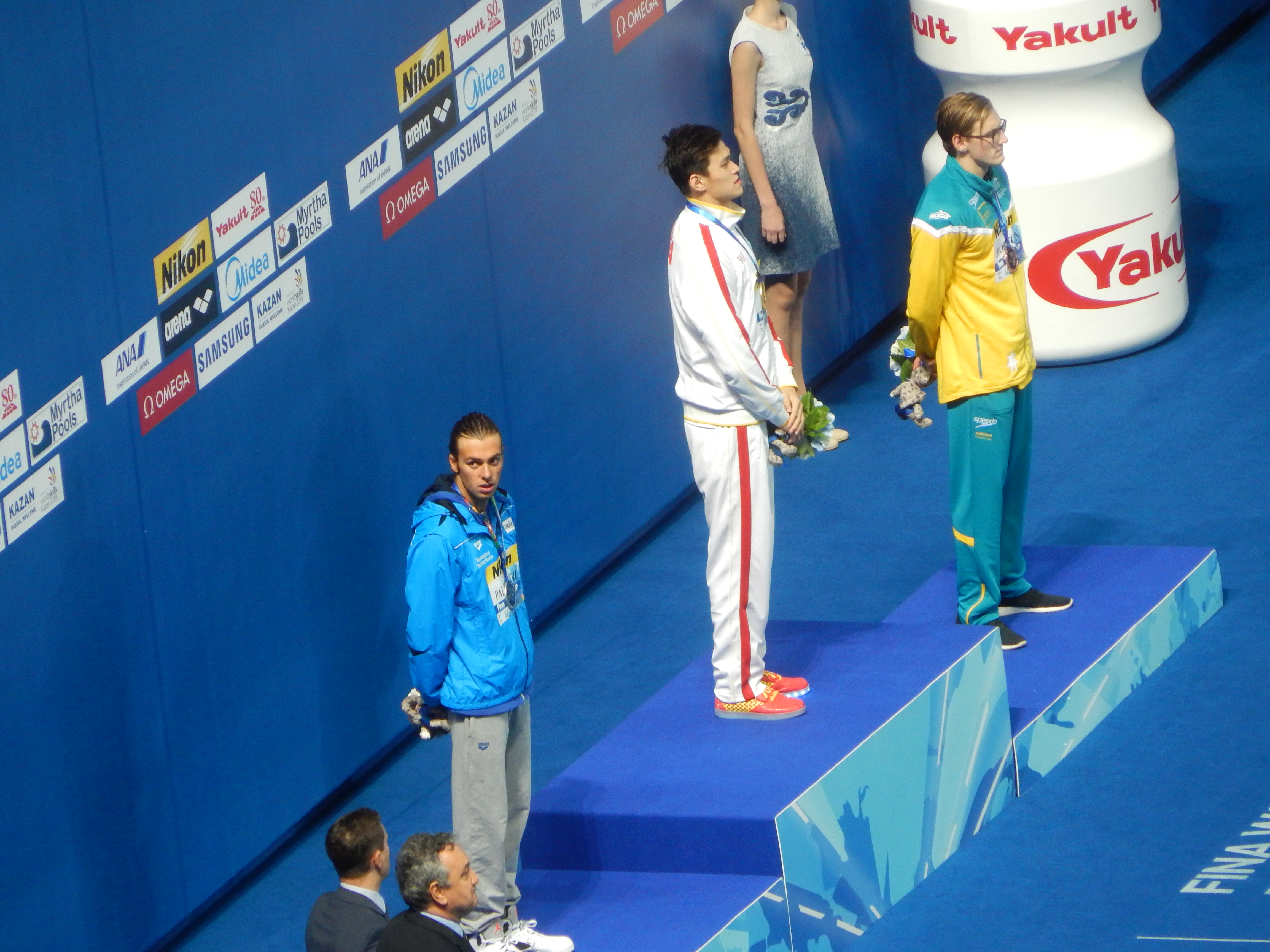 Medallists at the men's 800 metres freestyle in Kazan 2015